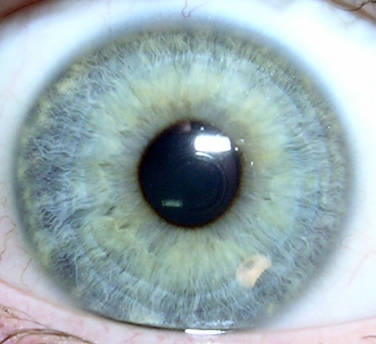 Closeup of the iris of a human eye